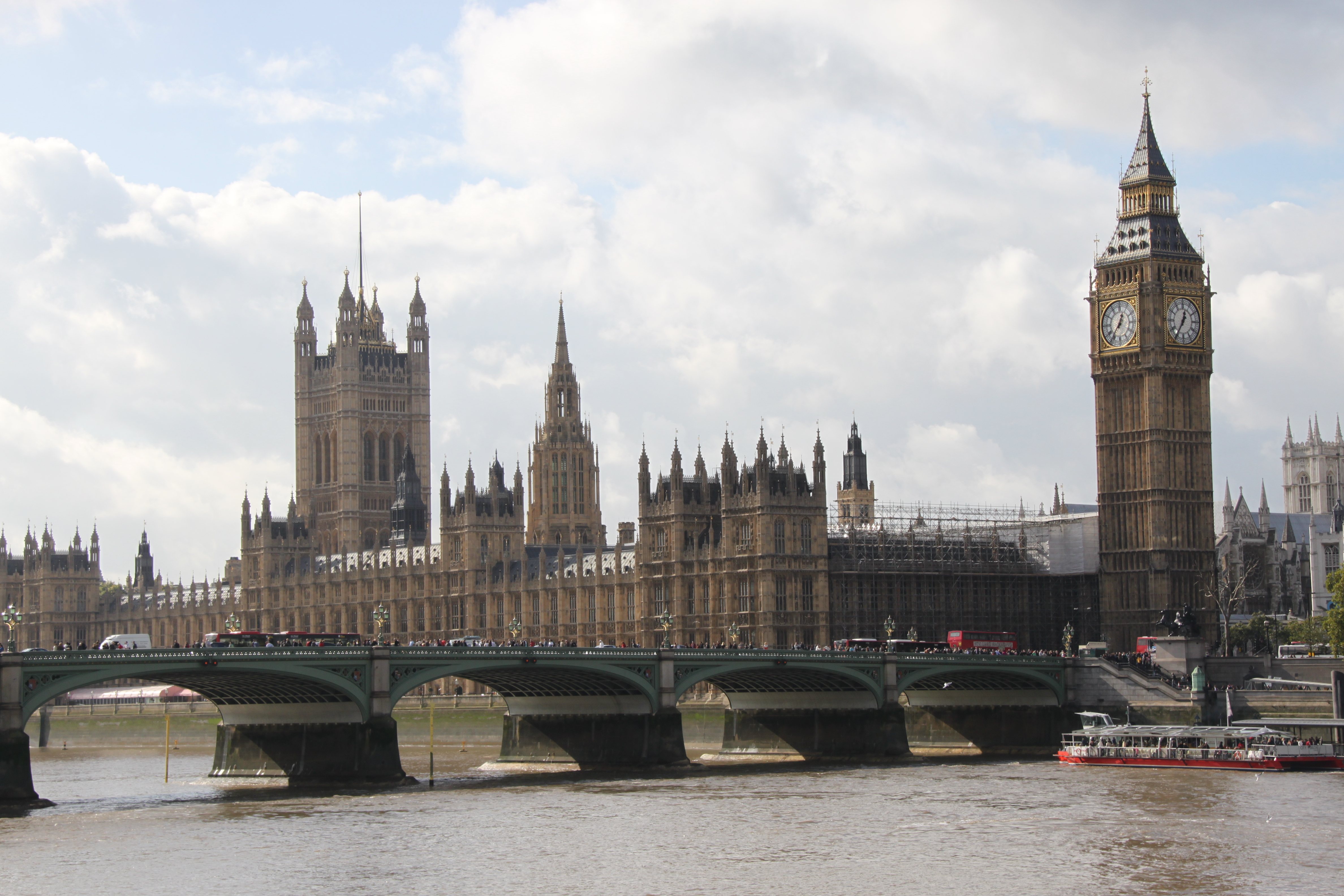 October 2009